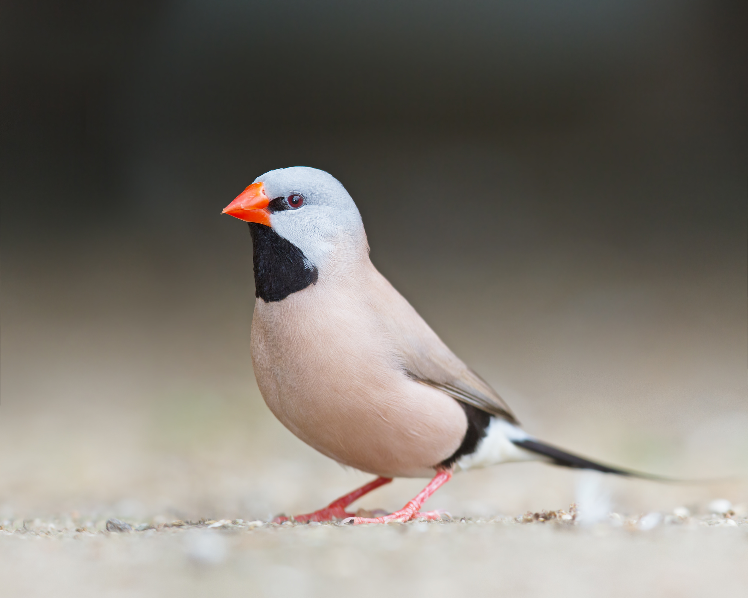 Long-tailed Finch (Poephila acuticauda), Bird Walk Aviary, Canberra, Australia